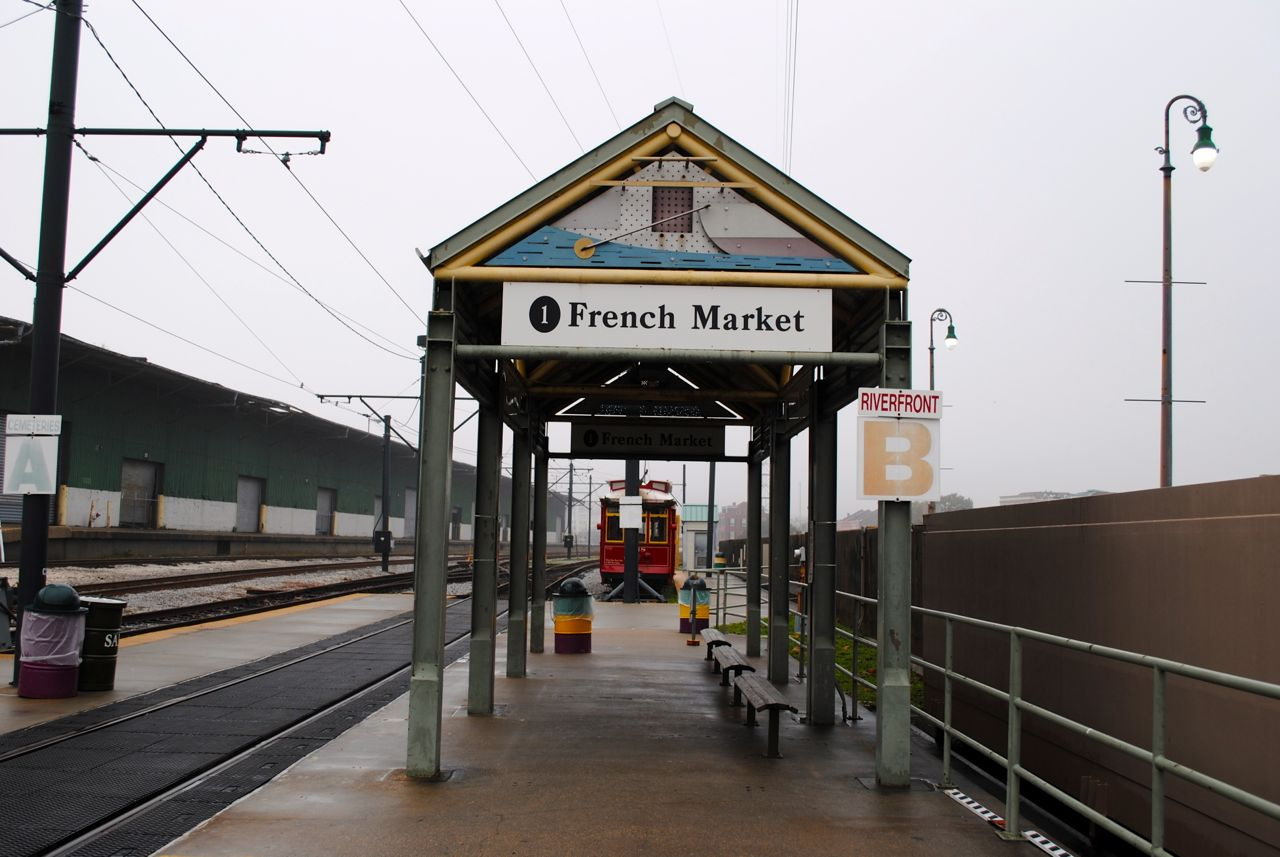 New Orleans Streetcars, photo taken in 2009. Riverfront line at French Market stop.